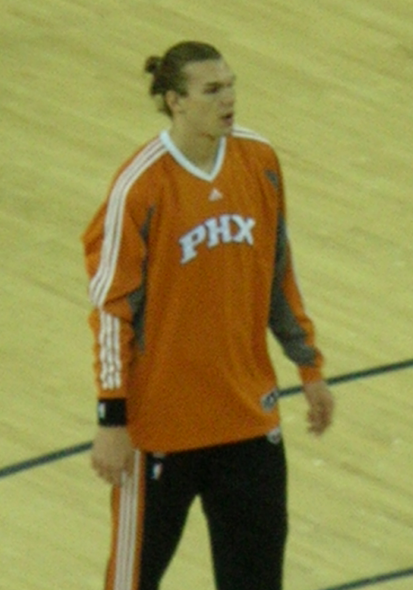 Phoenix Suns power forward Louis Amundson at a road game against the Golden State Warriors. The Suns won 154-130.